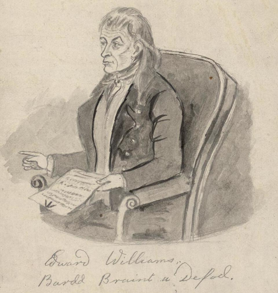 A portrait from the Welsh Portrait Collection at the National Library of Wales. Depicted person: Iolo Morganwg – Welsh poet, antiquarian, collector and literary forger